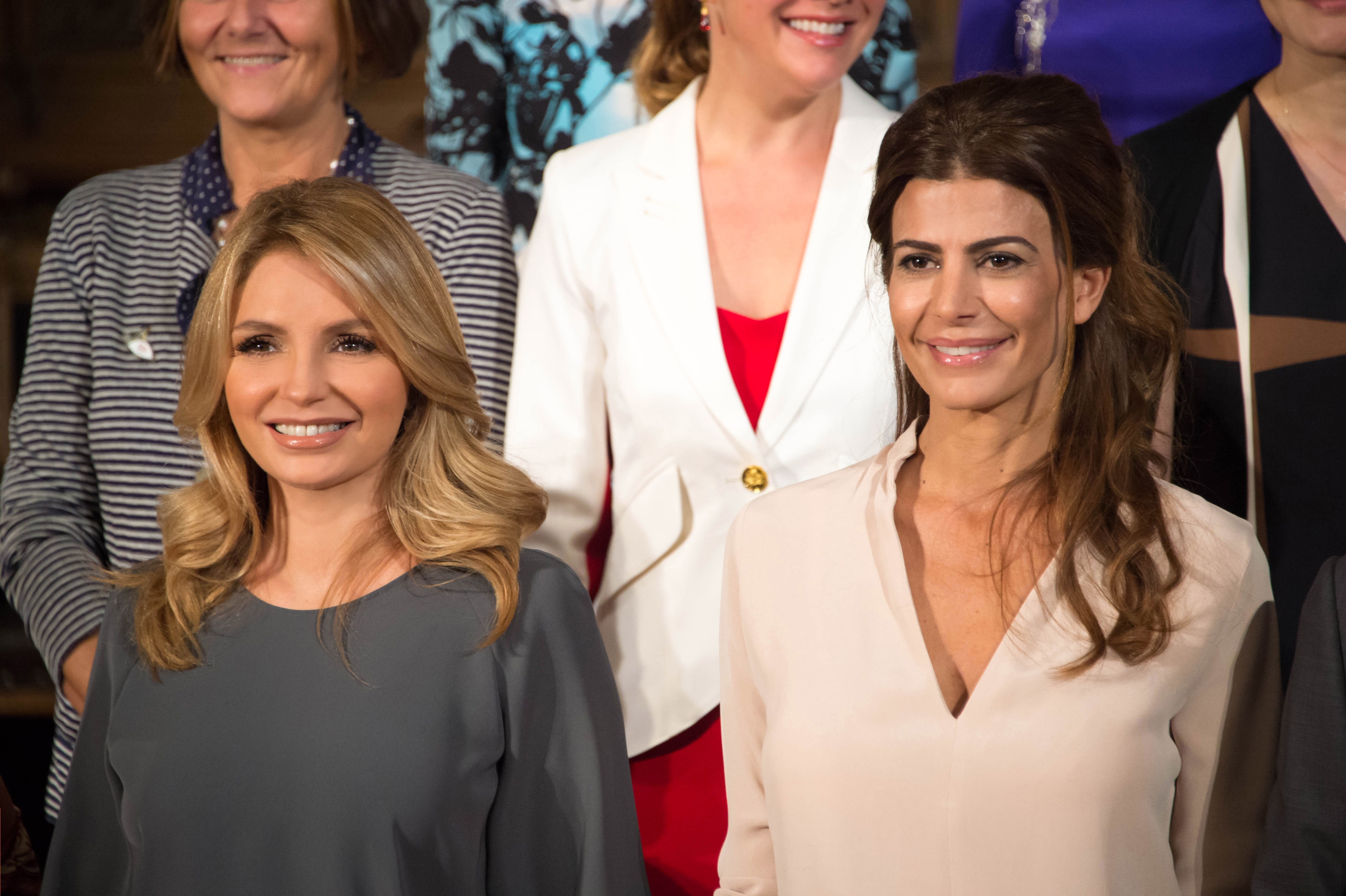 Angélica Rivera and Juliana Awada in Hamburg, July 2017